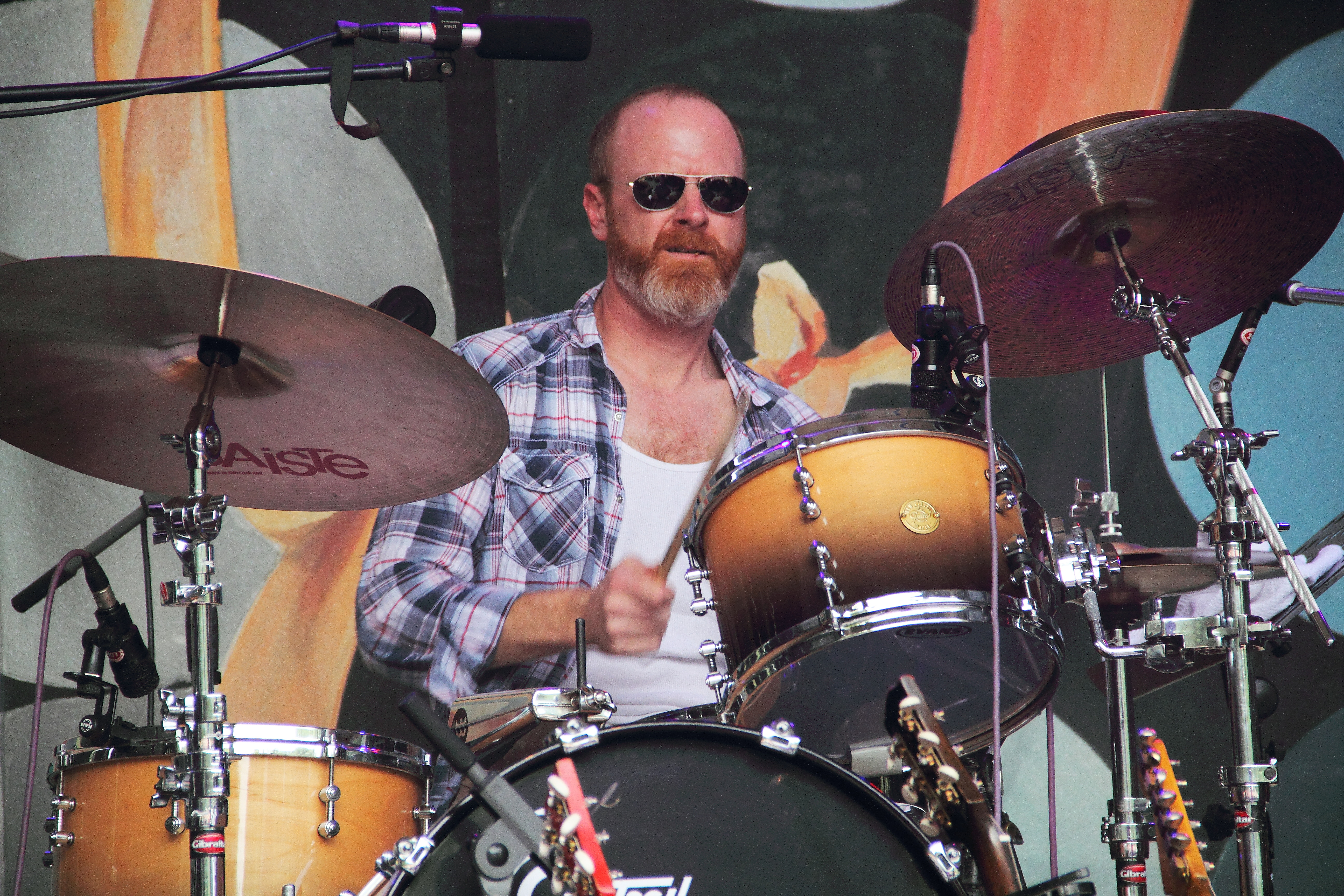 Benji Bohannon with Luke Winslow-King at Rudolstadt-Festival 2016.